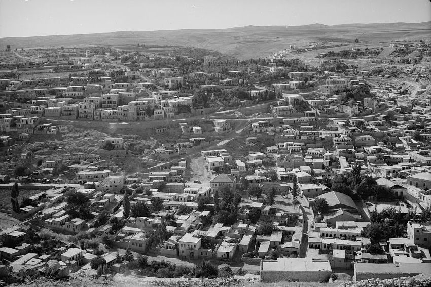 Amman in Emirate of Transjordan 1940